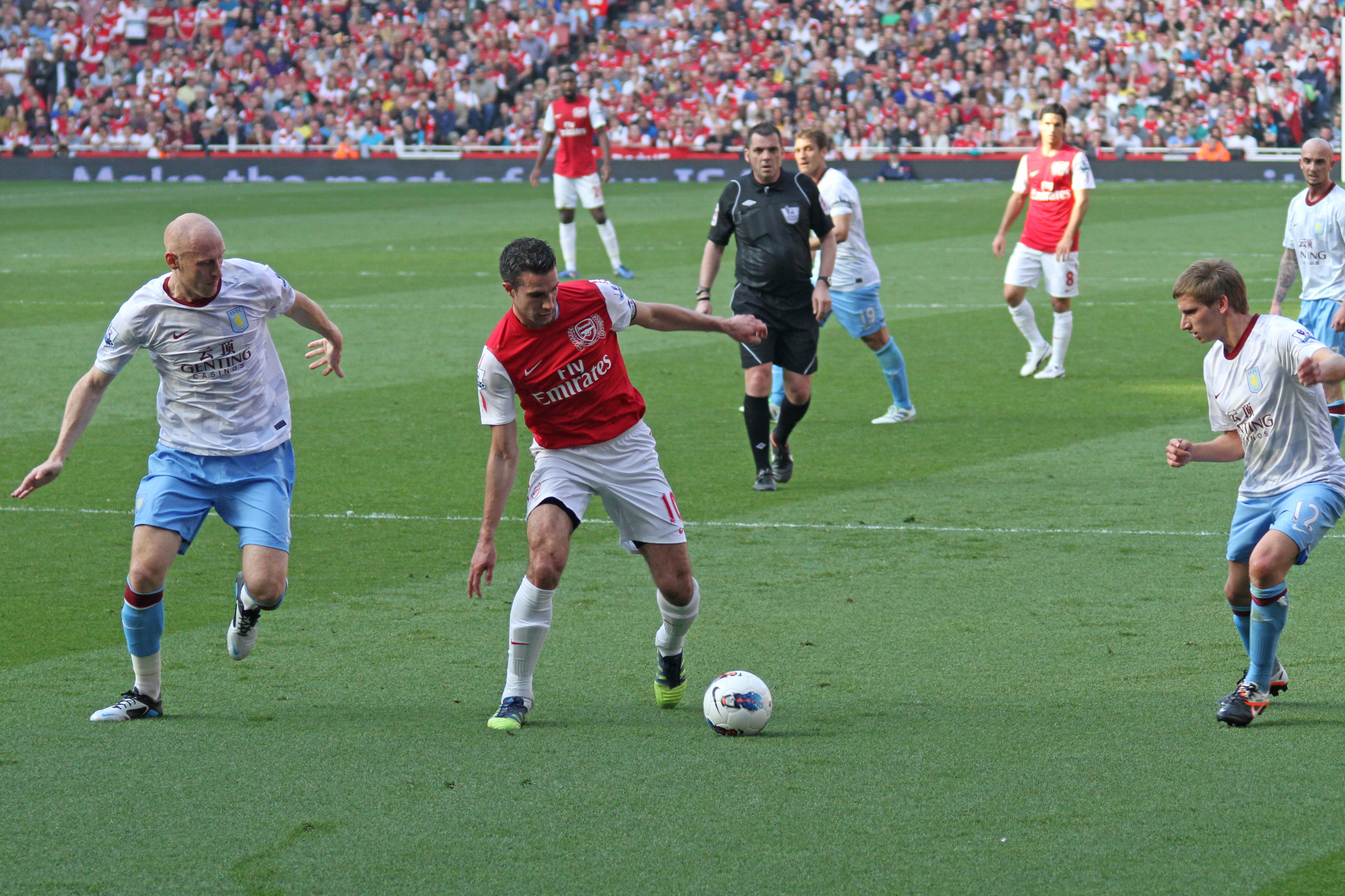 Robin van Persie of Arsenal defended by James Collins and Marc Albrighton.